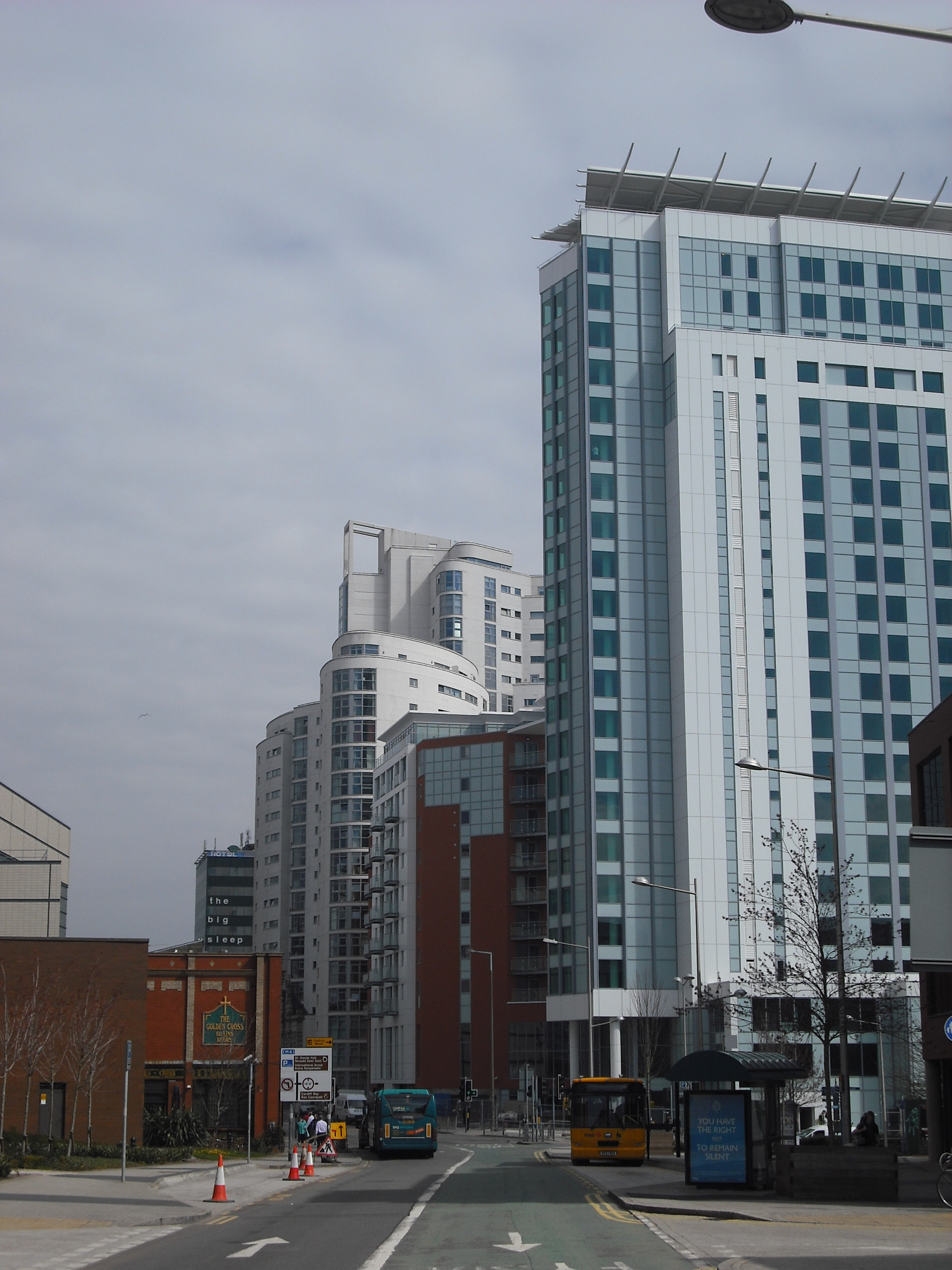 Bute Terrace, Showing the new Radisson Hotel, and the Meridian Gate,and Alto Lusso Apartment Blocks